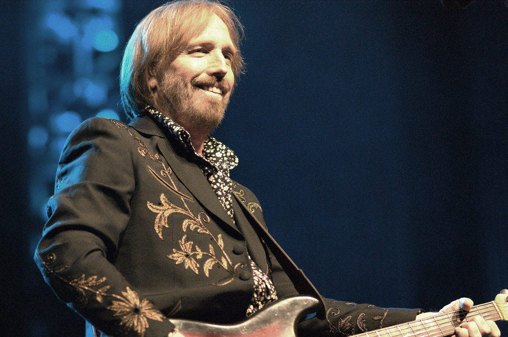 Tom Petty concert in 2010